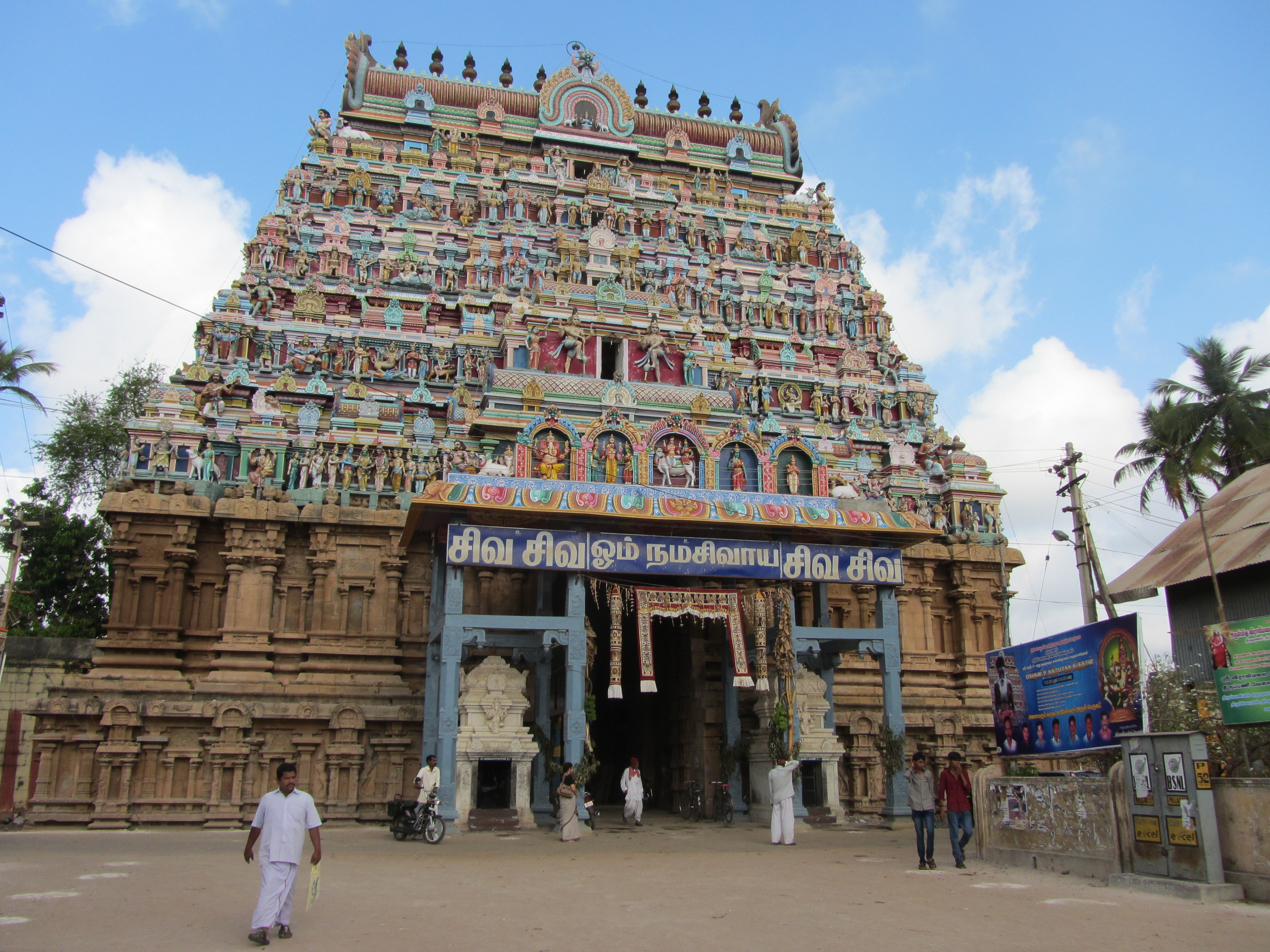 The Kampaheswarar Temple in the town of Thirubuvanam on the Mayiladuthurai-Kumbakonam road.